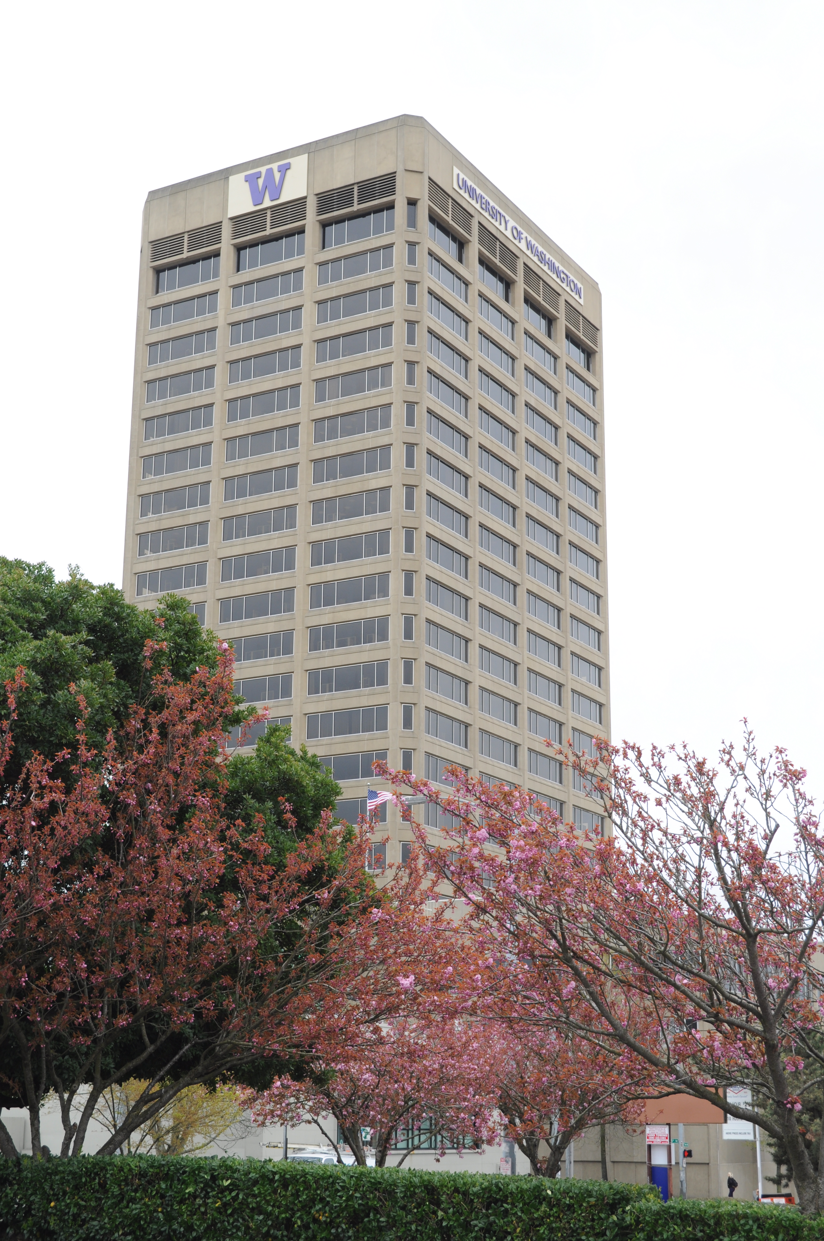 UW Tower, Seattle, Washington. The UW Tower was originally Safeco Plaza, a name that has been transferred to Safeco's new downtown location.